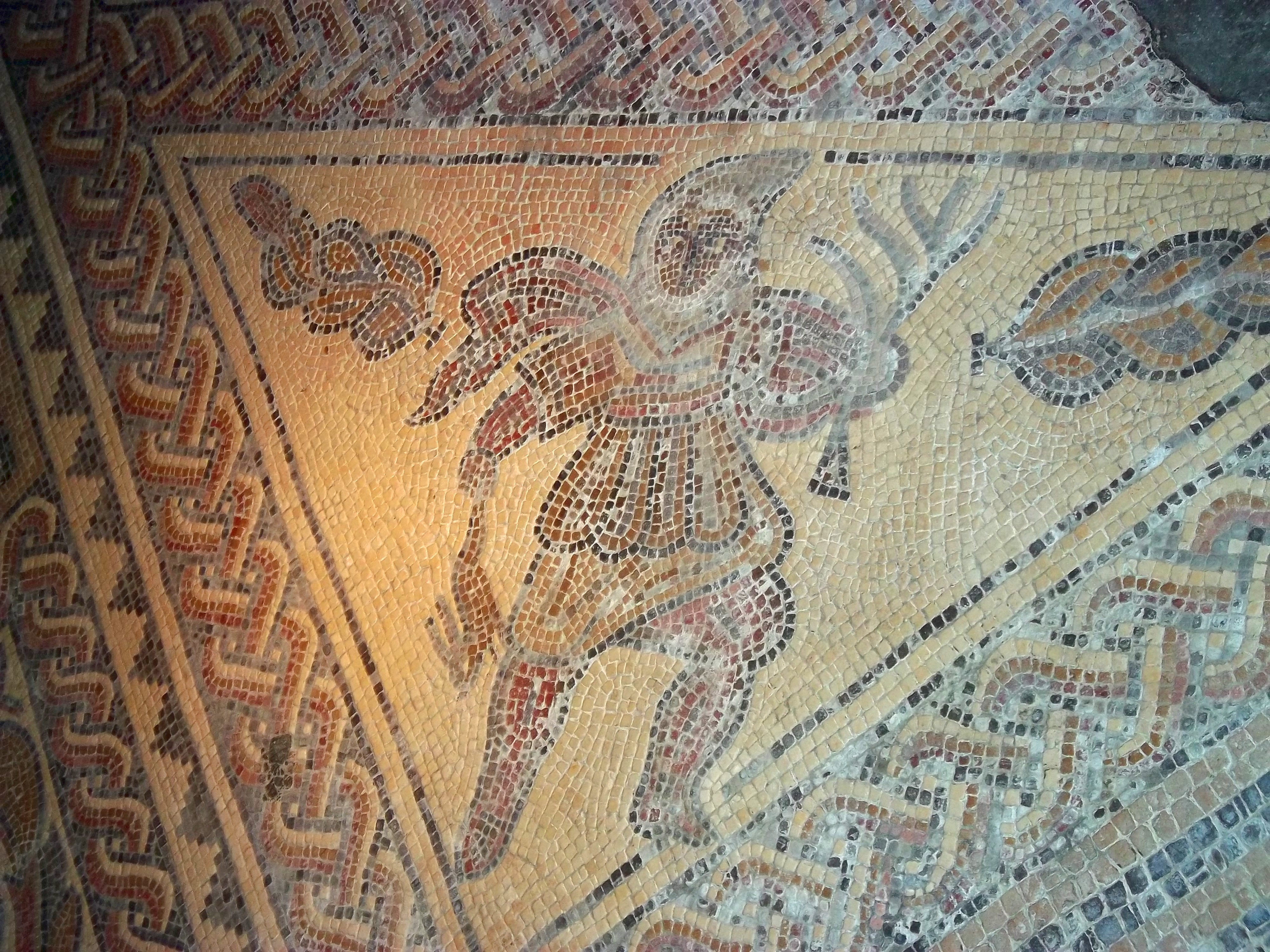 Chedworth Roman Villa -- Triclinium mosaic -- Winter